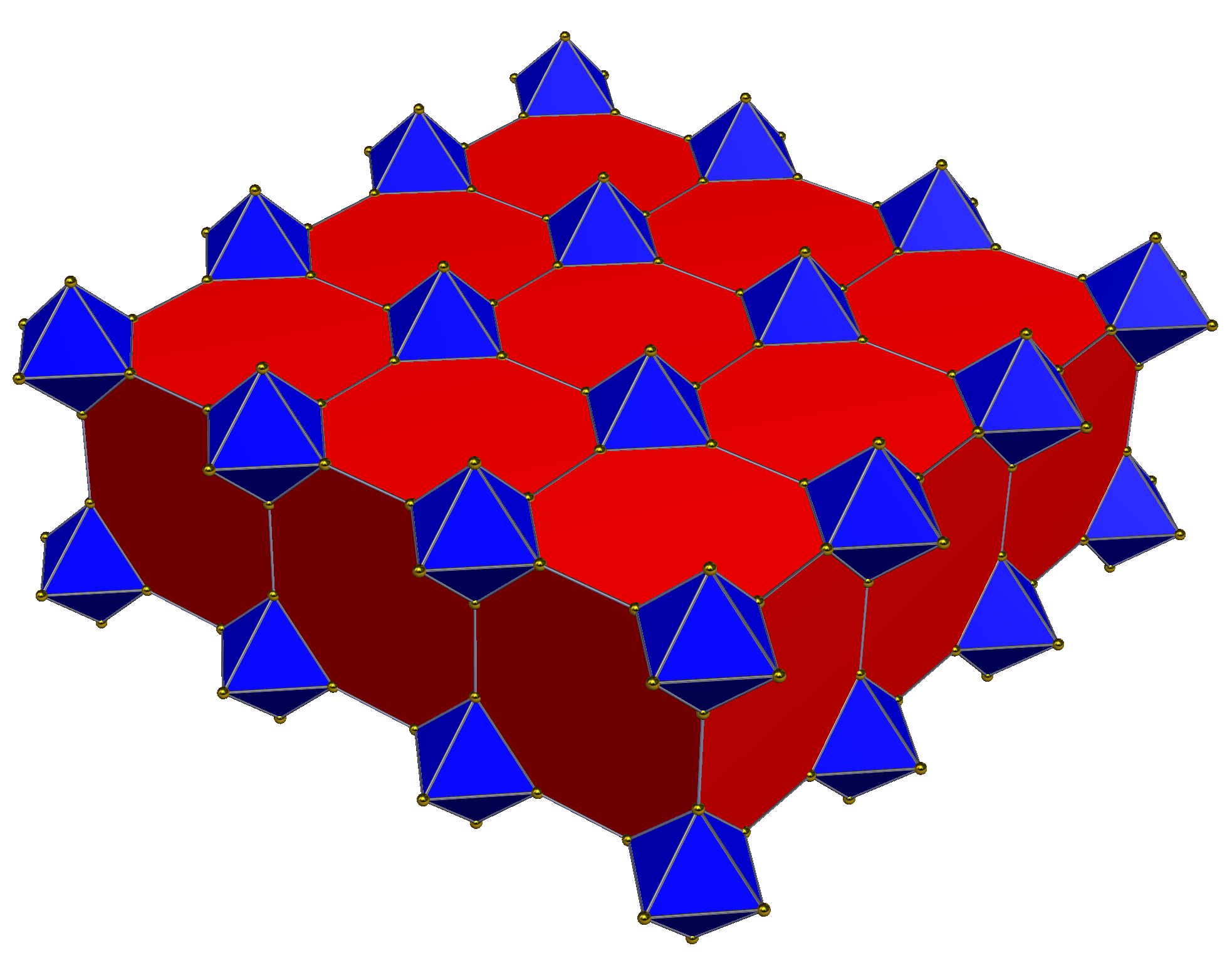 Truncated_cubic_honeycomb